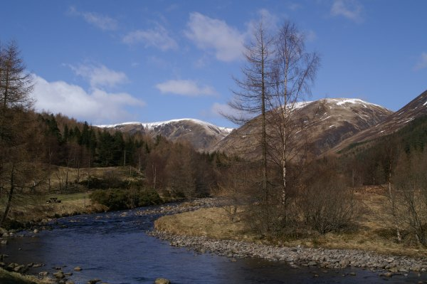 River South Esk at Aucharn The River South Esk at the 'Glen Doll' car park.